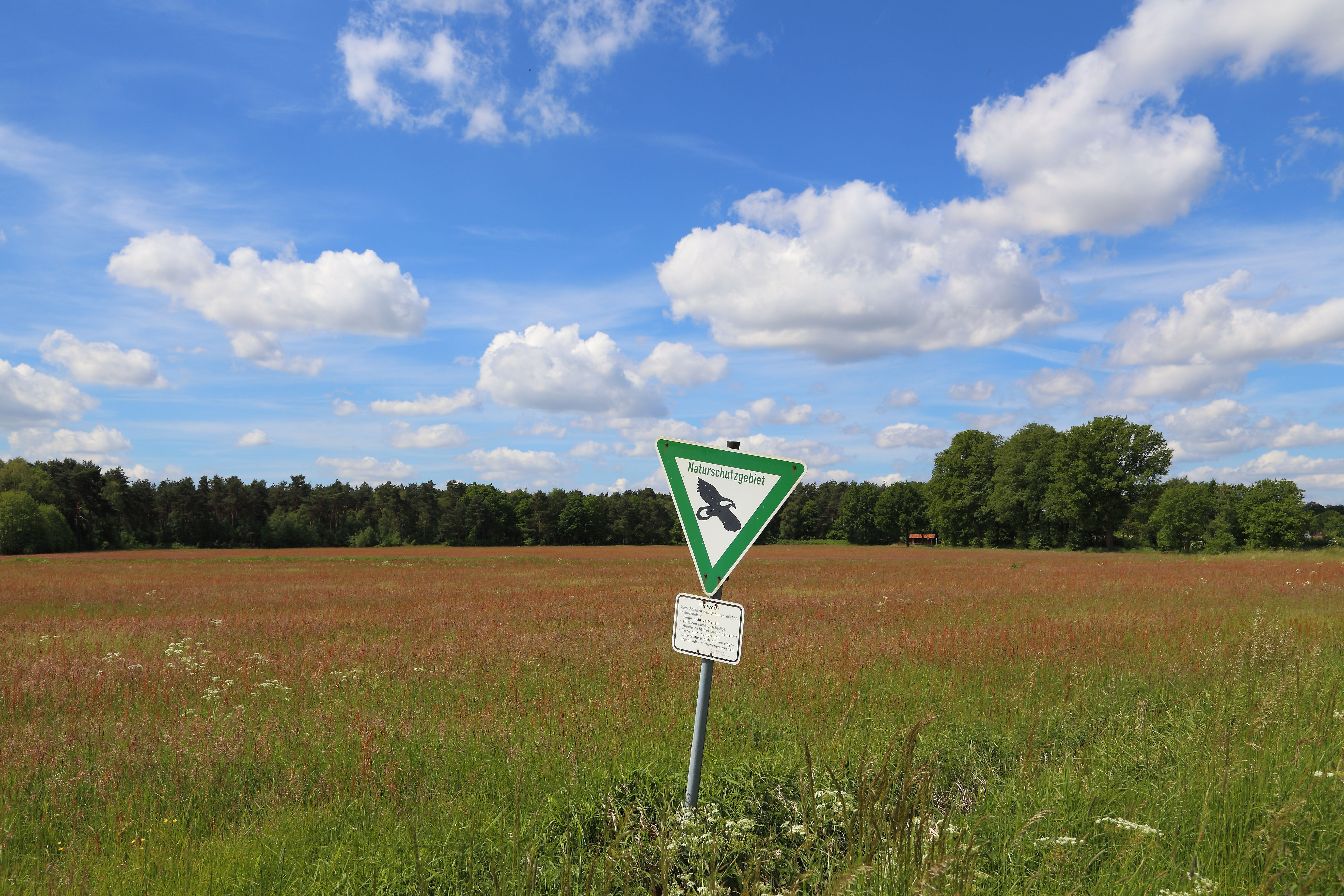 Sign at the nature reserve (Naturschutzgebiet/NSG) „Halverder Aa-Niederung“ in Hopsten-Halverde, Kreis Steinfurt, North Rhine-Westphalia, Germany.